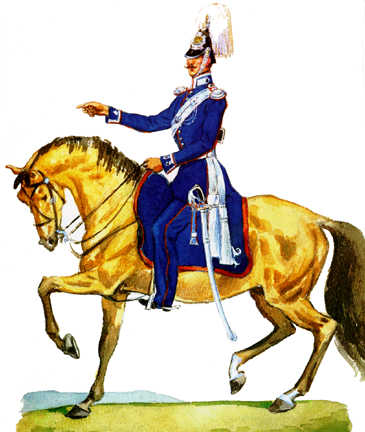 Serbian Officer 1856